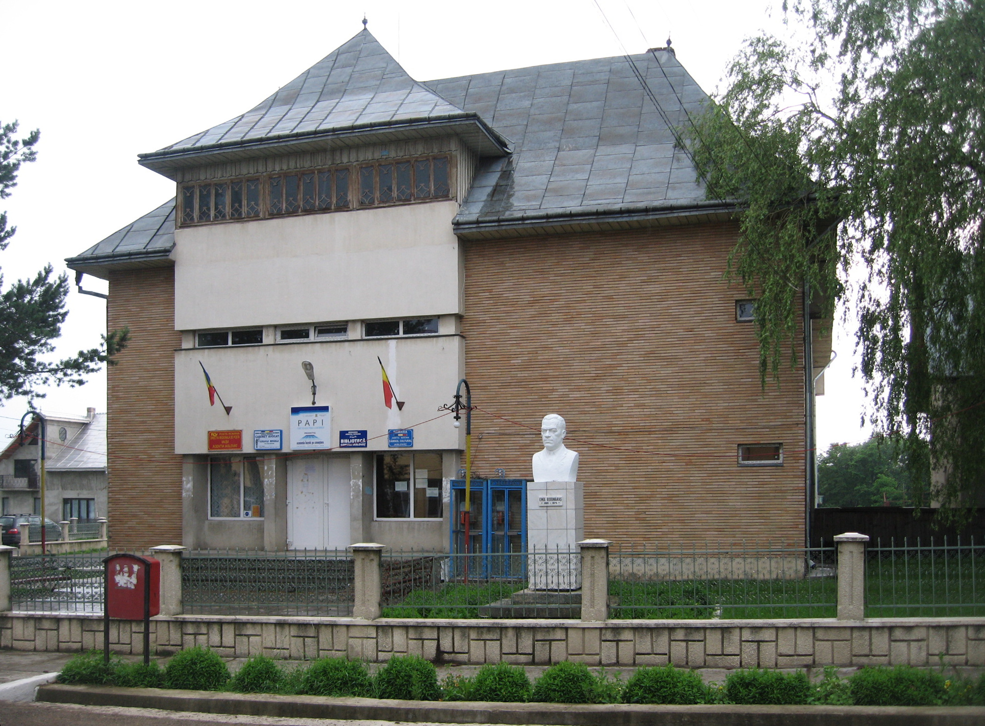 Bustul lui Emil Bodnăraş din Iaslovăţ.